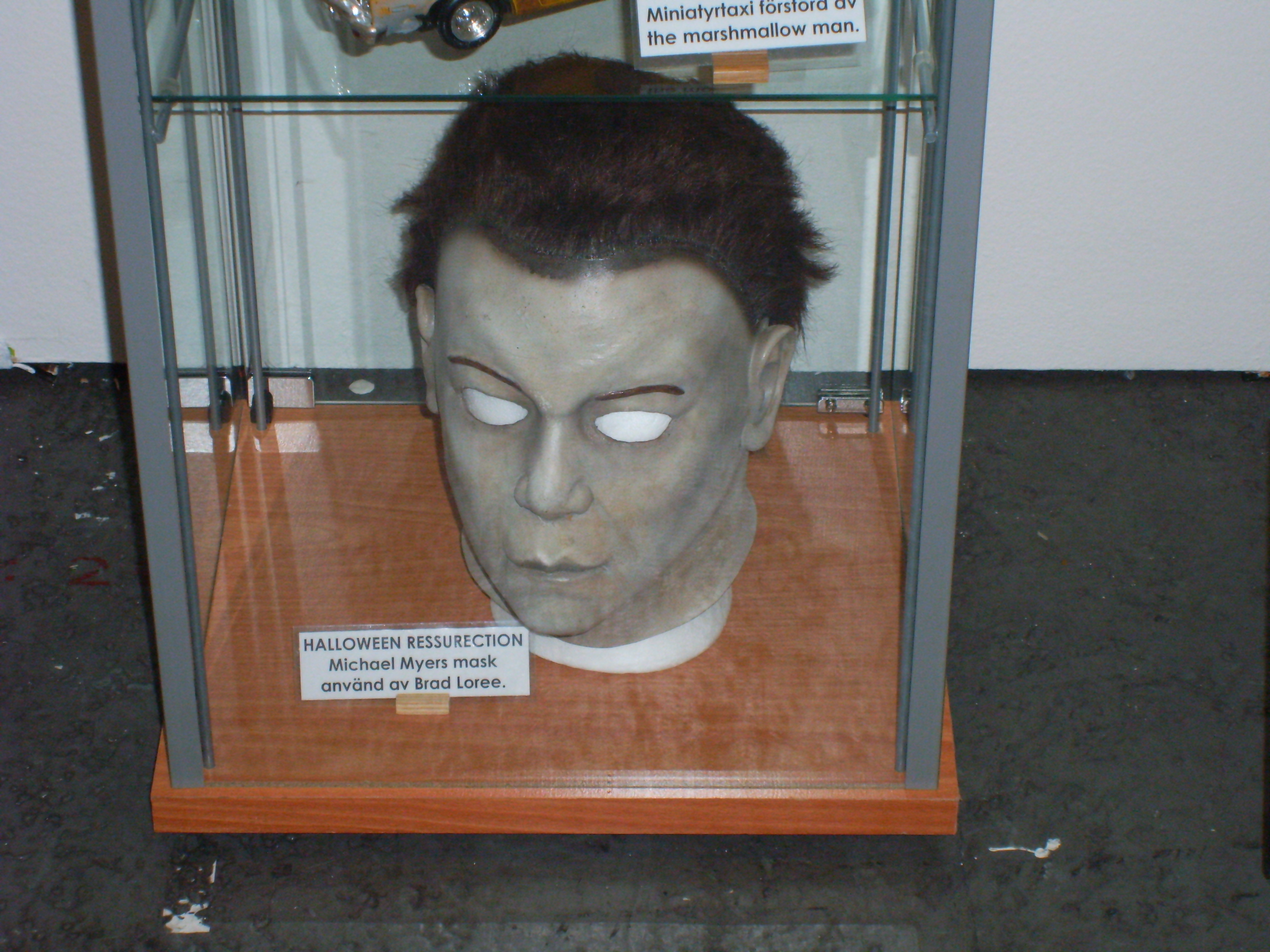 Michael Myers' mask at Stockholm International Fairs